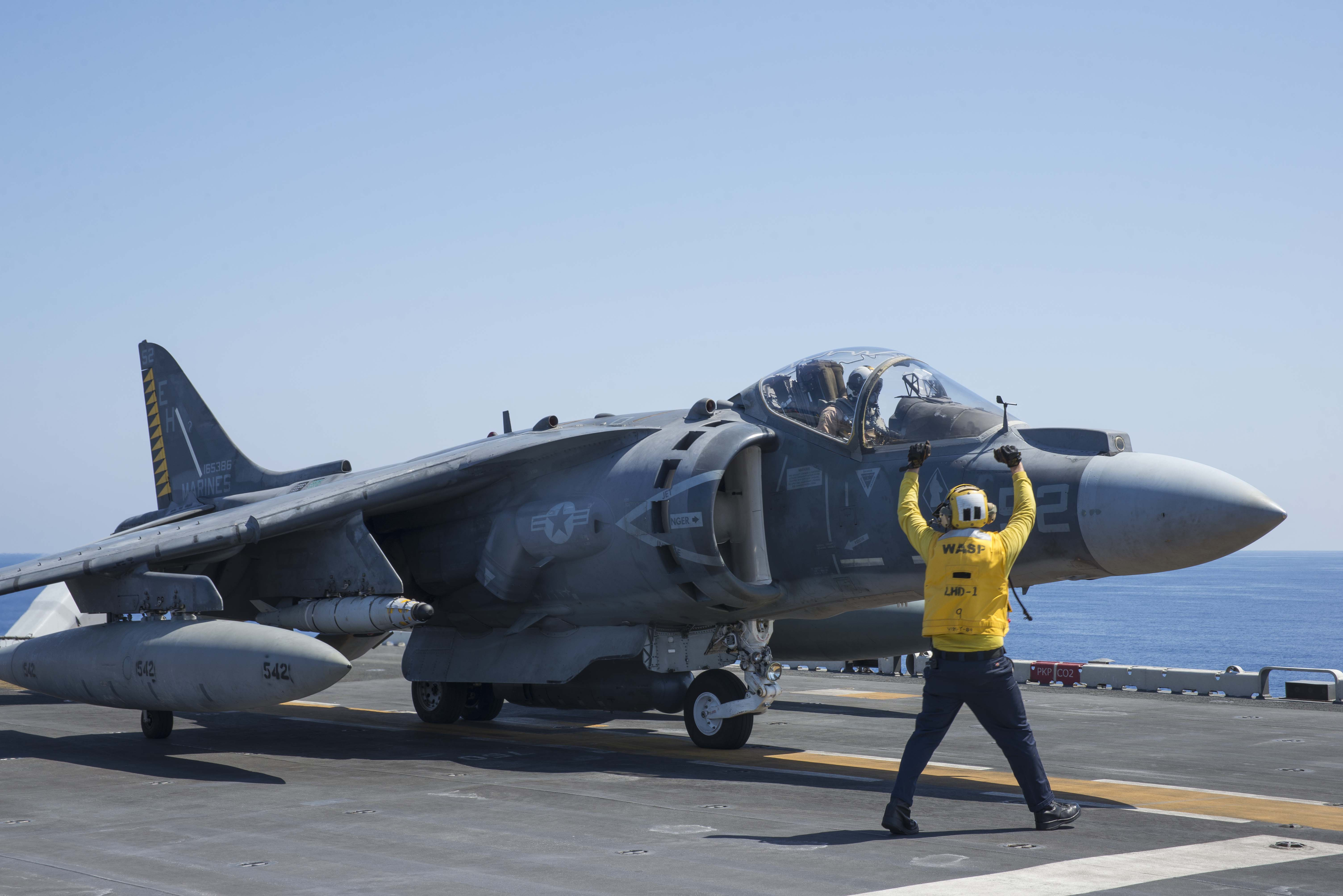 MEDITERRANEAN SEA (Aug. 11, 2016) A Sailor signals an AV-8B Harrier pilot assigned to the 22nd Marine Expeditionary Unit (22nd MEU) to stop aboard the amphibious assault ship USS Wasp (LHD 1) Aug. 11, 2016. The 22nd MEU, embarked aboard Wasp, is conducting precision air strikes in support of the Libyan Government of National Accord-aligned forces against Daesh targets in Sirte, Libya, as part of Operation Odyssey Lightning. (U.S. Navy photo by Mass Communication Specialist 2nd Class Nathan Wilkes/Released) 160811-N-TO519-121 Join the conversation: navylive.dodlive.mil